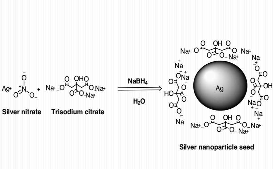 AgNPs can be synthesized using the raw material, silver nitrate and a reducing agent such as sodium citrate in order to create the silver nanoparticle seed.